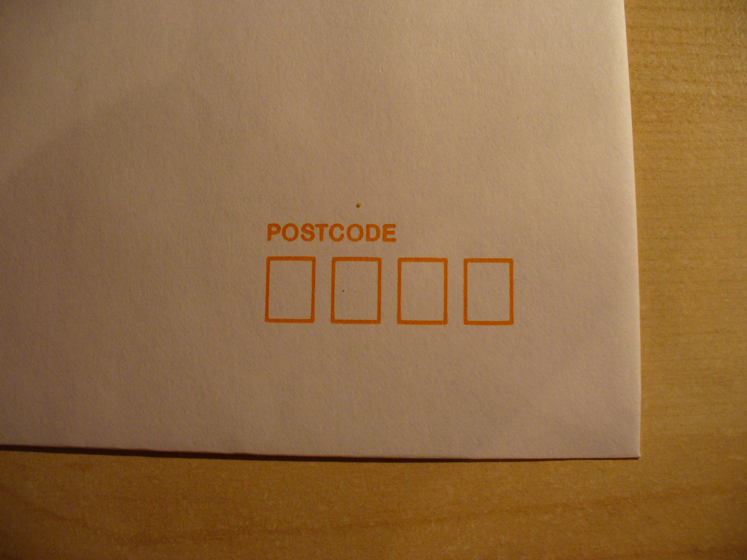 Details: Envelope with Australian postcode details Author: JRG Date: 25 April, 2007 License